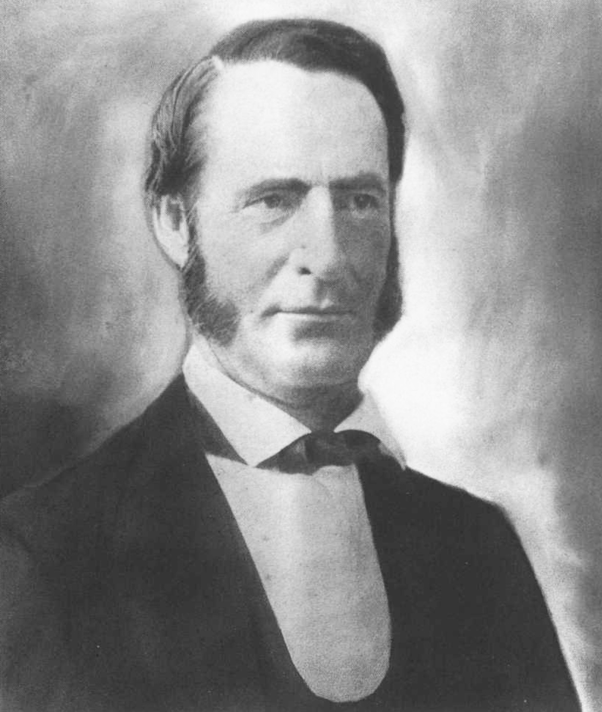 Charles Coffin Harris (1822–1881) was a New England lawyer who became a judge and diplomat in the Kingdom of Hawaii.